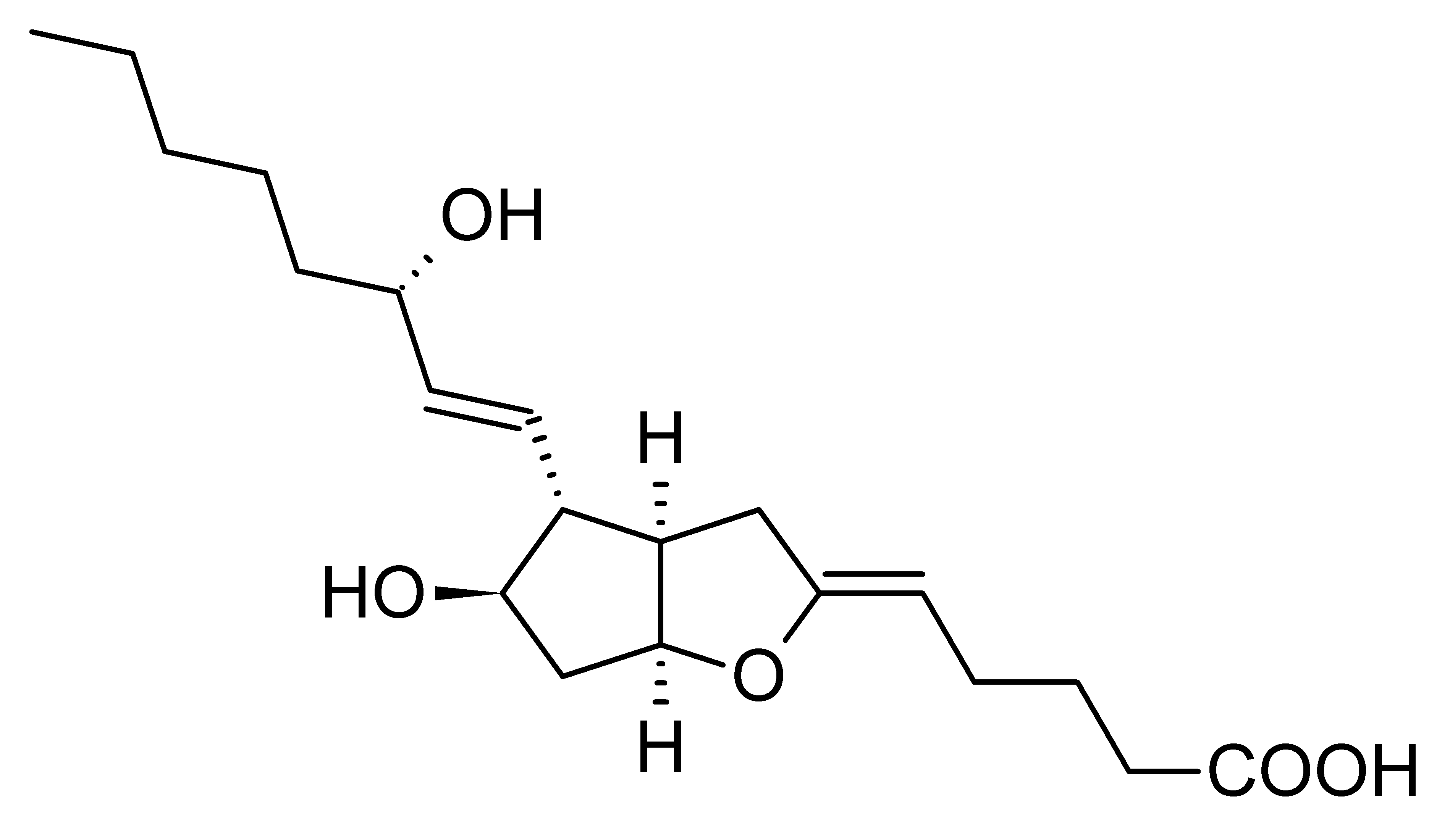 The structure of Prostaglandin I2